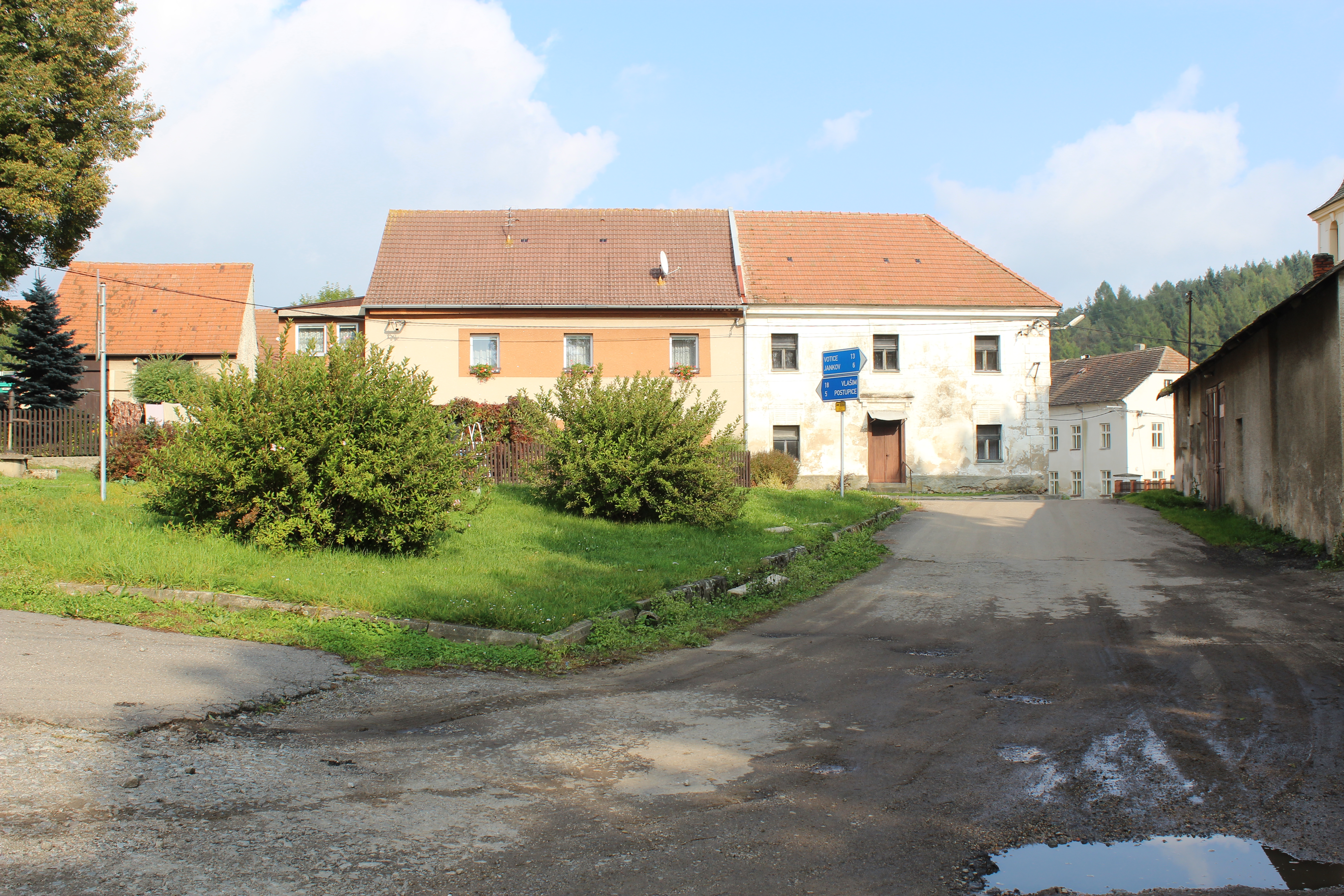 Former farmyard Popovice (Benešov District).House no. 2 (white) with a sundial and house no. 94. Church of Saint James the Greater (Popovice).Fire station in Popovice (Benešov District)